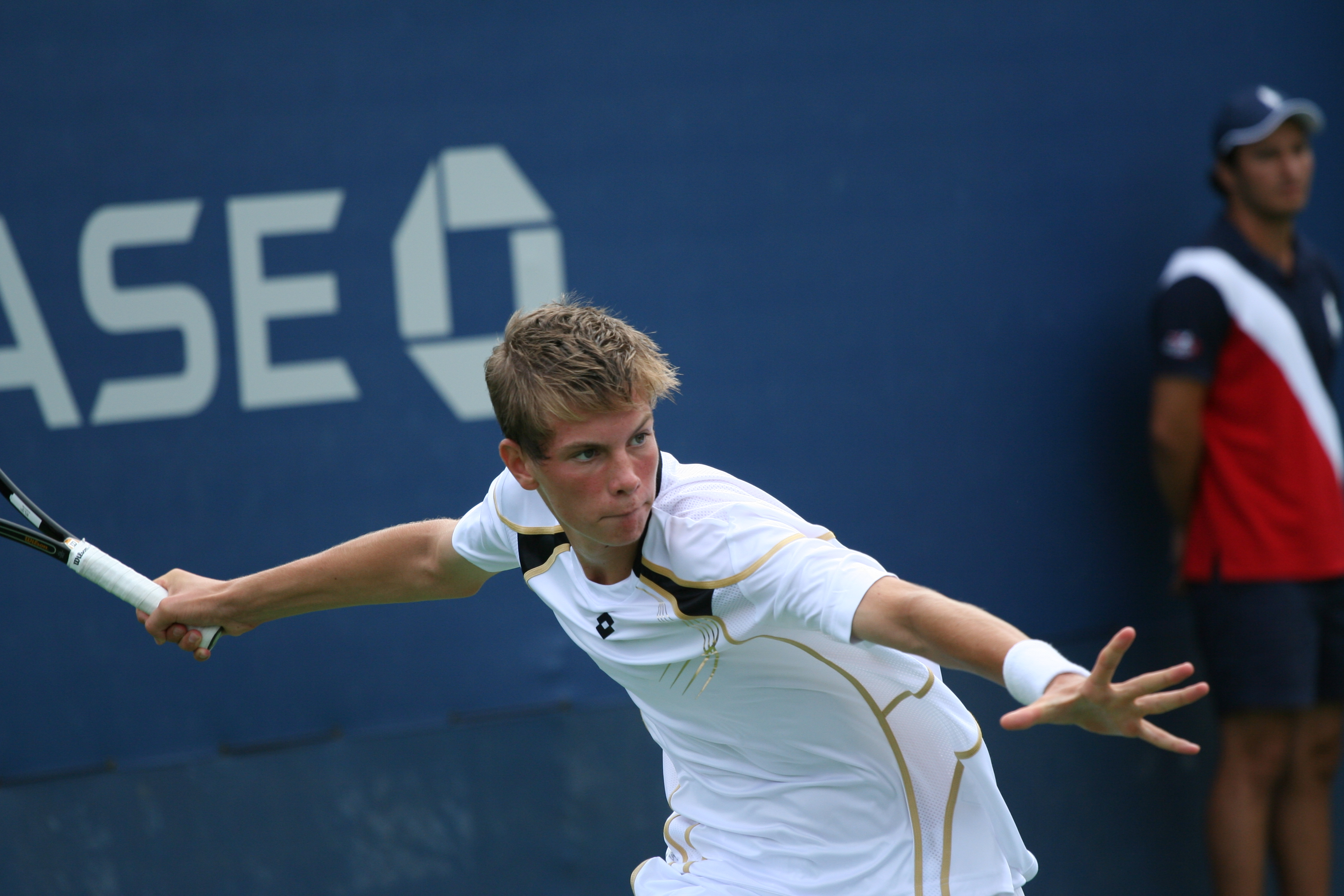 Horansky at the 2009 USO